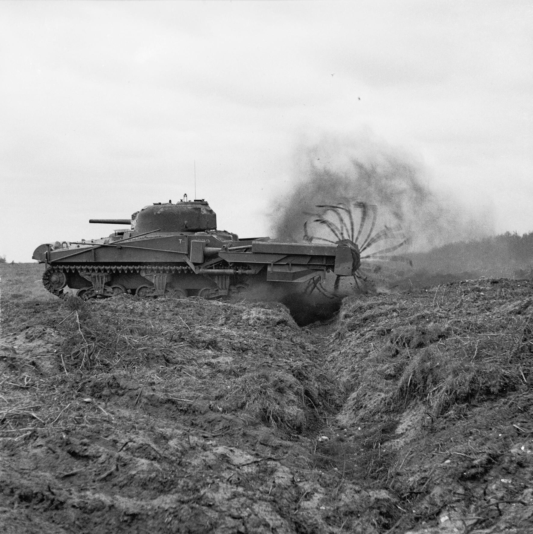 Sherman Crab Mk II flail tank, one of General Hobart's 'funnies' of 79th Armoured Division, during minesweeping tests in the UK, 27 April 1944. Sherman Crab Mark II minesweeping flail tank, one of Hobart's 'funnies', used to clear already identified minefields.